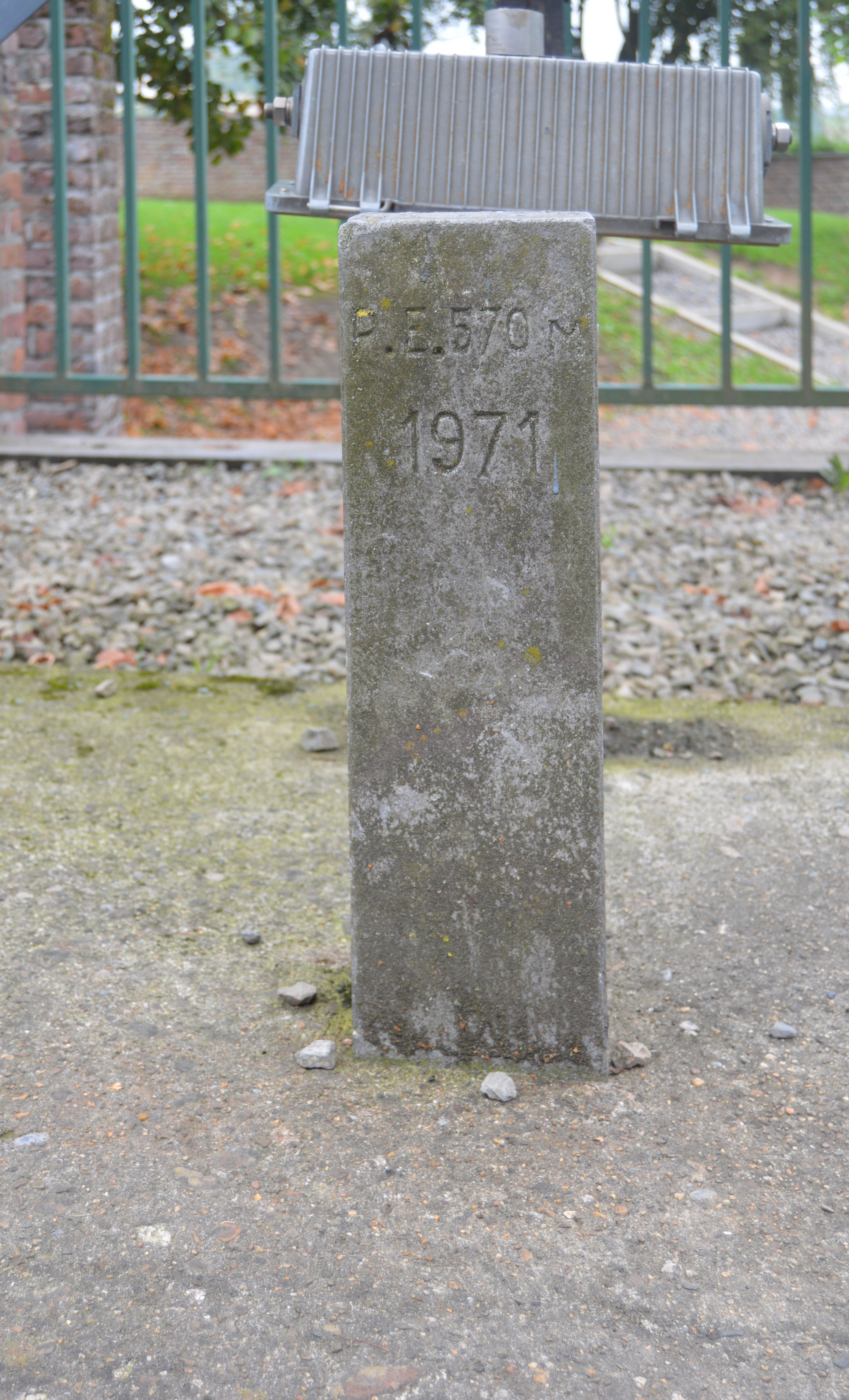 Ancient pit of the Bas-Bois coal mine in Soumagne, Belgium